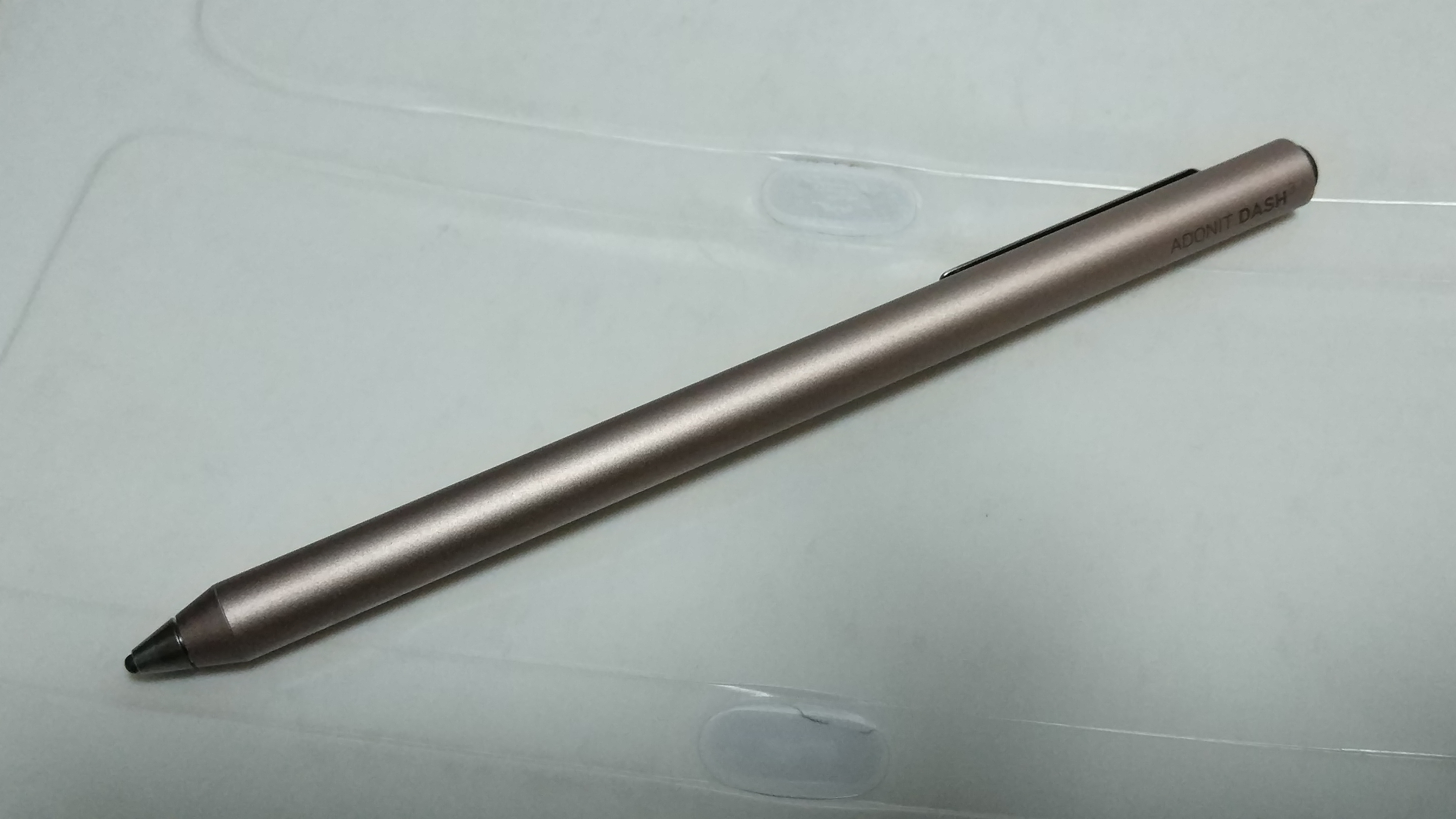 Stylus, ADONIT DASH 3.